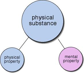 Visual representation of property dualism; one type of substance exemplifying two types of property.